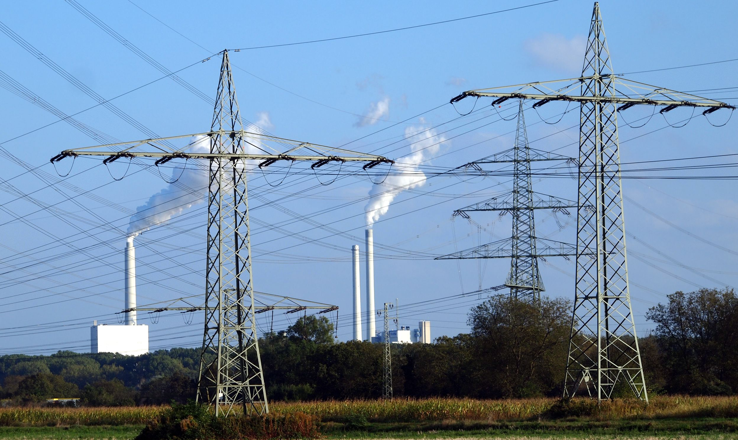 Rheinhafendampfkraftwerk power plant, long distance view behind power lines